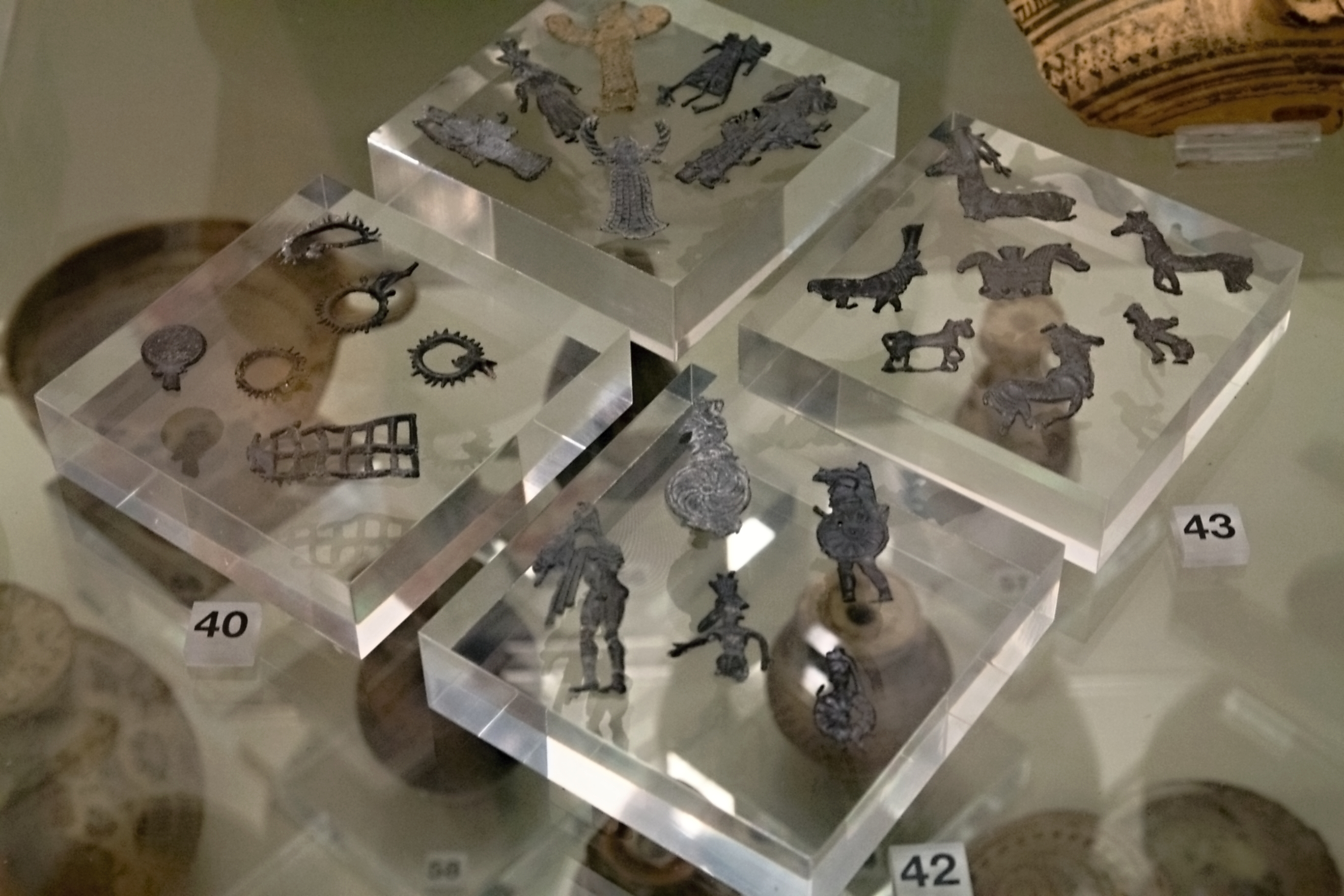 Lead votive figurines. Sparta Sanctuary of Artemis Orthia, 6th century BC. UCL.